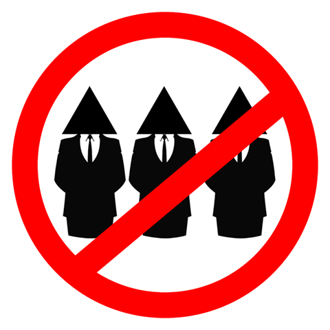 Band Logo